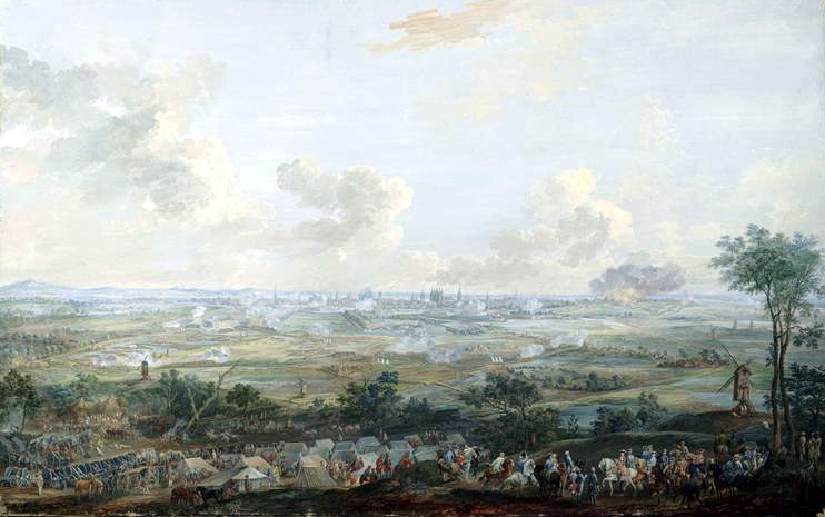 Siège de Tournai par Louis XV du 30 avril au 22 mai 1745 by Louis Nicolas Van Blarenberghe (1716-1794)